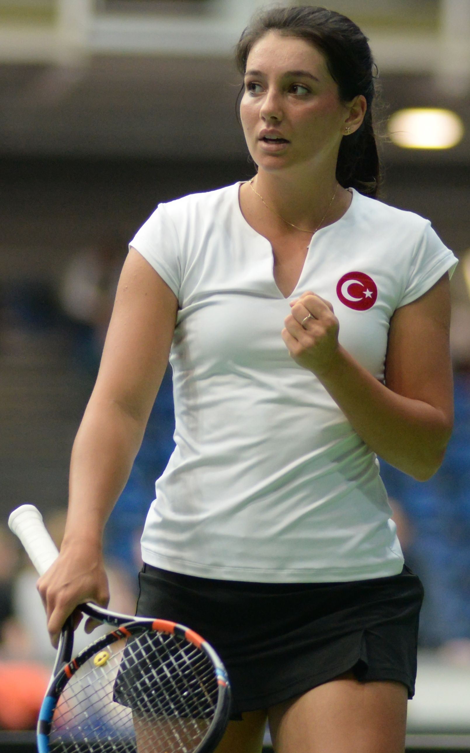 İpek Soylu at the 2015 Fed Cup